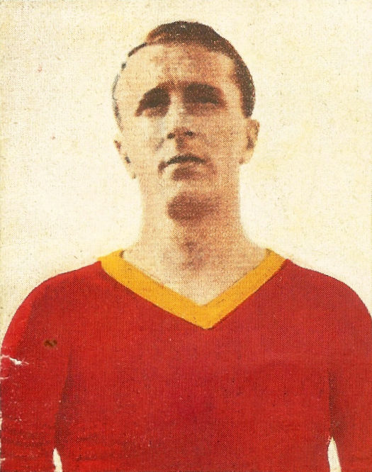 Italian footballer Gianangelo Barzan with A.S. Roma between late 1920s and early 1930s.